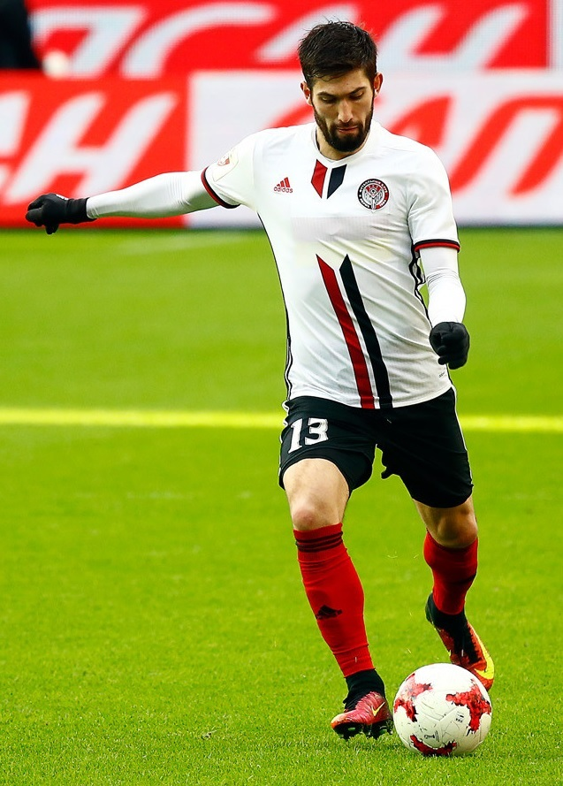 Roland Gigolayev with FC Amkar Perm in a game against FC Lokomotiv Moscow.